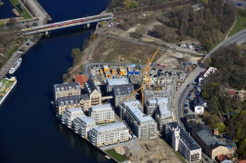 View of the construction works in the historic warehouse district in Potsdam. Condominia and tenements are going to develop.